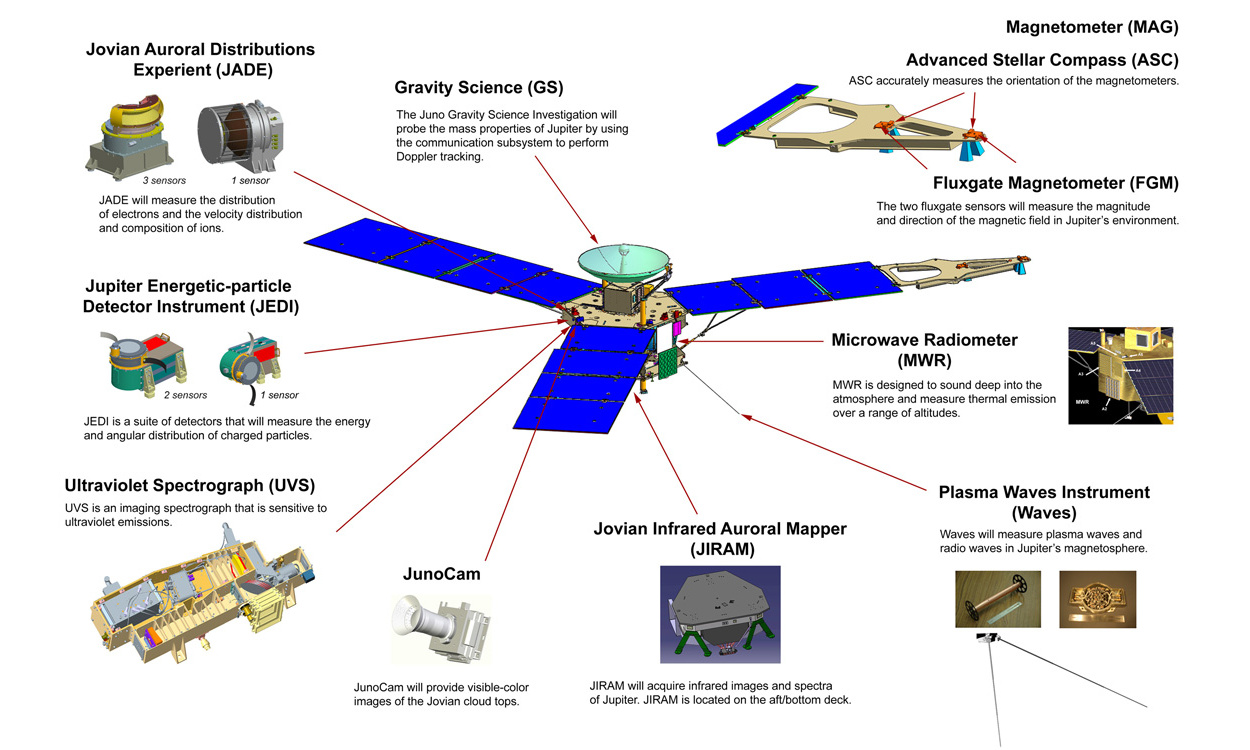 Location of the Juno spacecraft's science instruments.